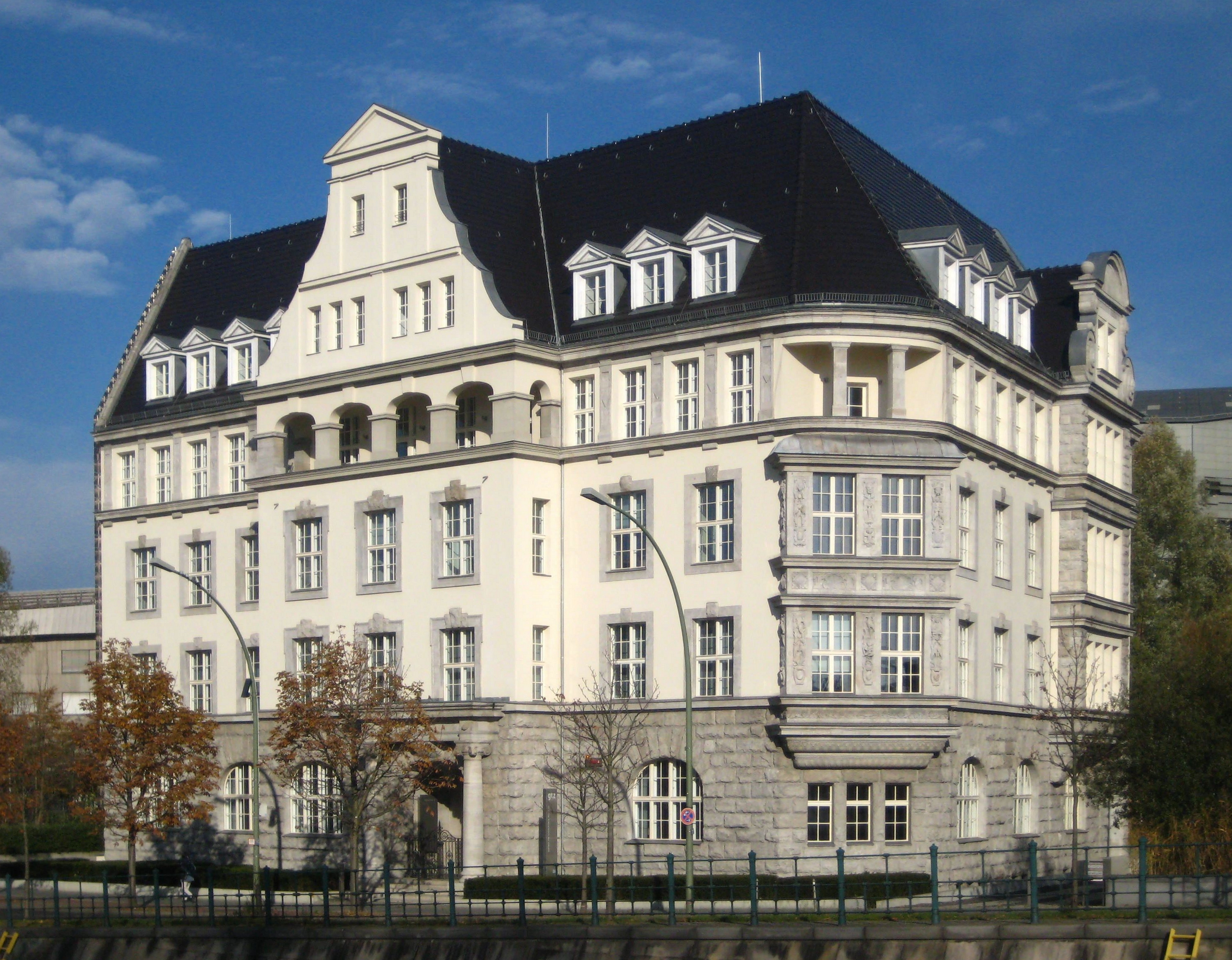 The GTZ House at Reichpietschufer No. 20 in Berlin-Tiergarten, seat of the Berlin offices of the Deutsche Gesellschaft für Technische Zusammenarbeit (German Technical Corporation). Apart from the Wine House Huth, this is the only surviving building of the pre-WWII commercial district between the former Potsdam Railway Station and the Landwehrkanal. It stands at the southern margin of Potsdamer Platz and was built from 1912 to 1913 by architect Paul Karchow for the Transatlantische Güterversicherungsgesellschaft (Transatlantic Commodity Insurance Corporation). The building has been designated as a historic landmark.